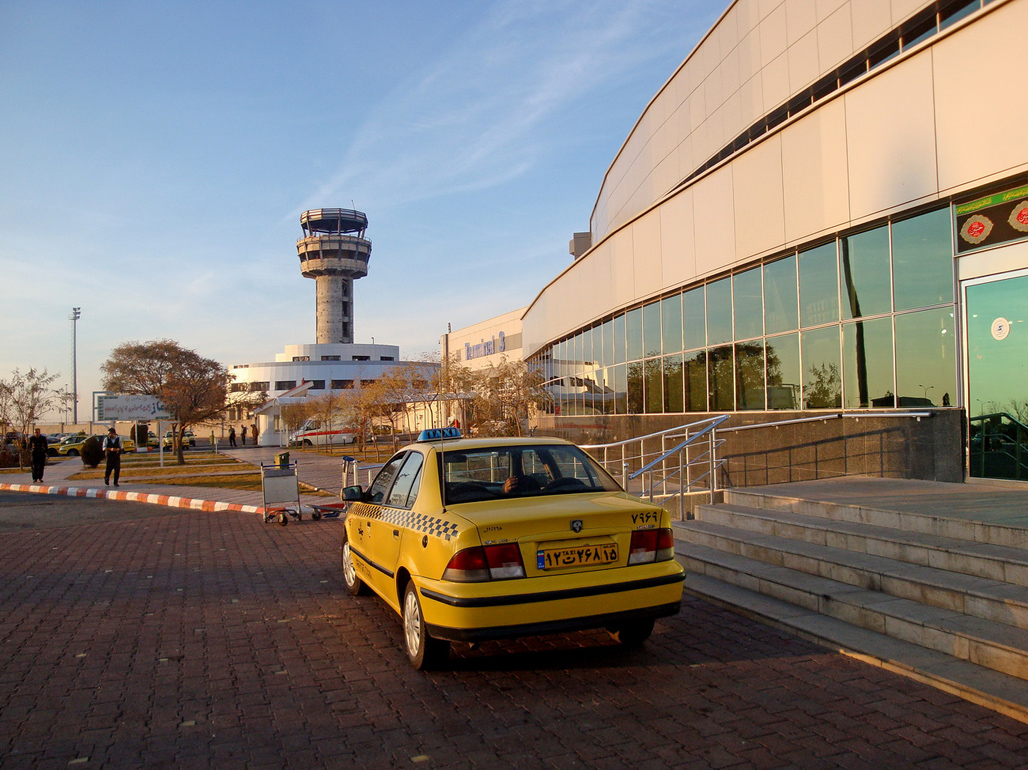 Tabriz Airport & U/C Control Tower